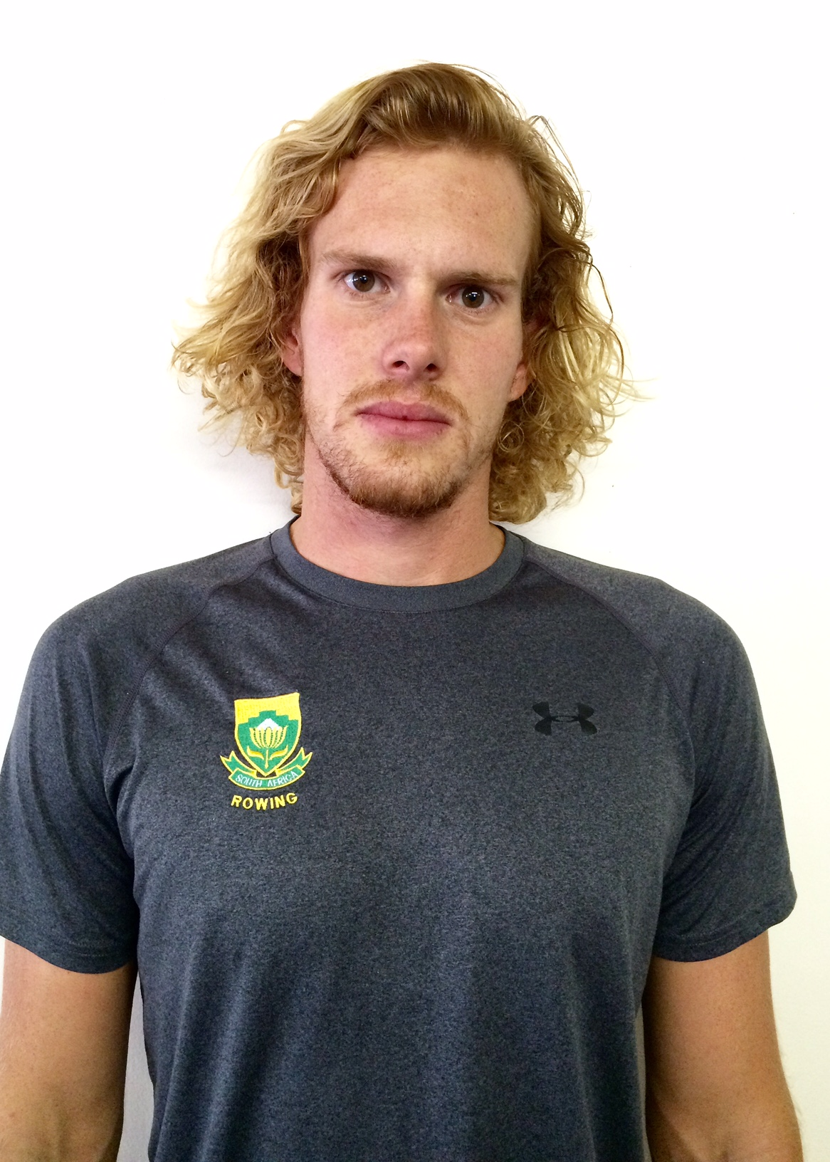 Profile